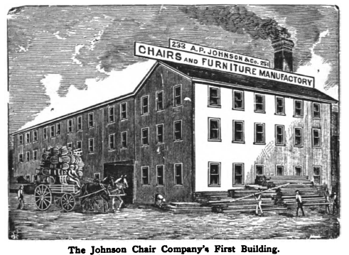 The original factory buildings of the Johnson Chair Company. North Green and Phillips Streets, Chicago, IL.